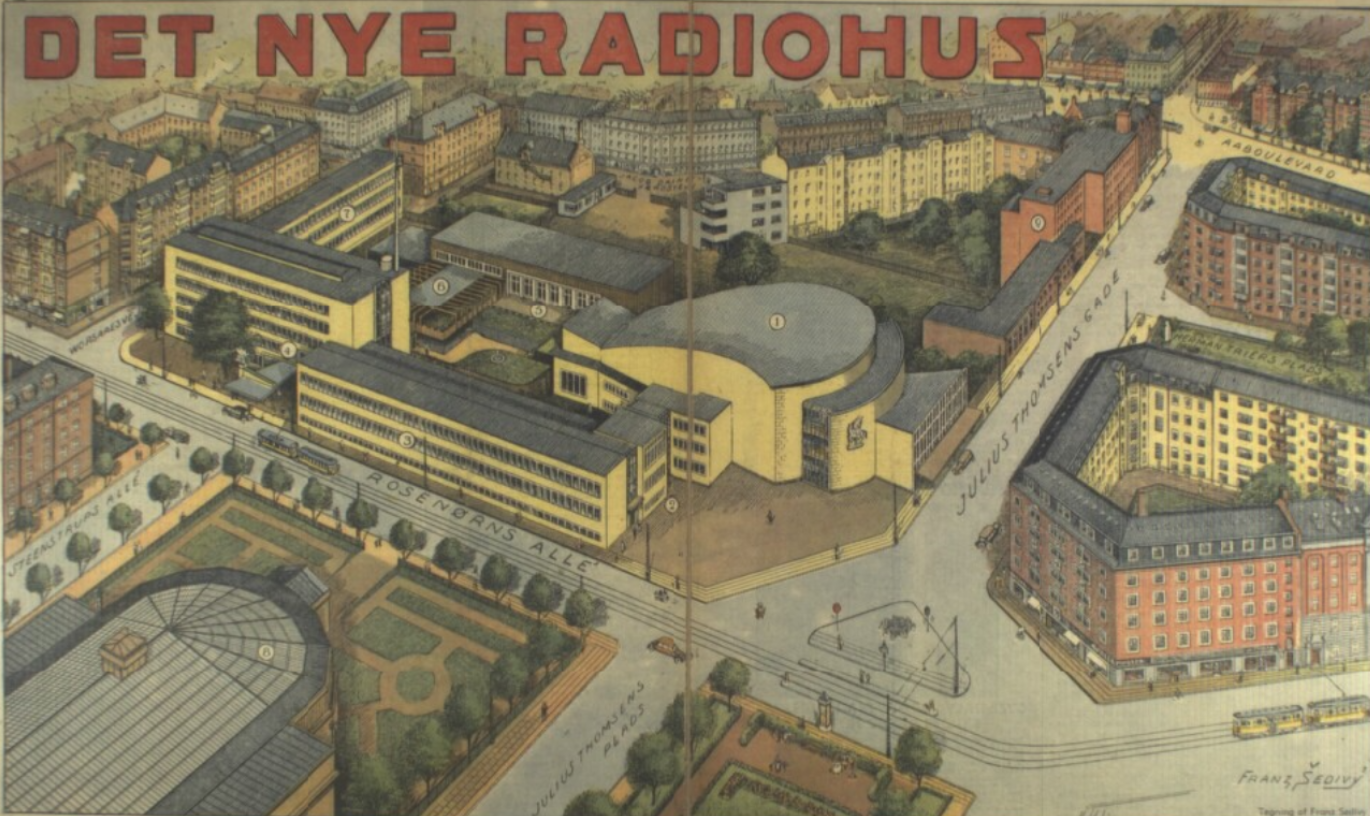 Det nye Radiohus på Rosenørns Allé, 1930-1939